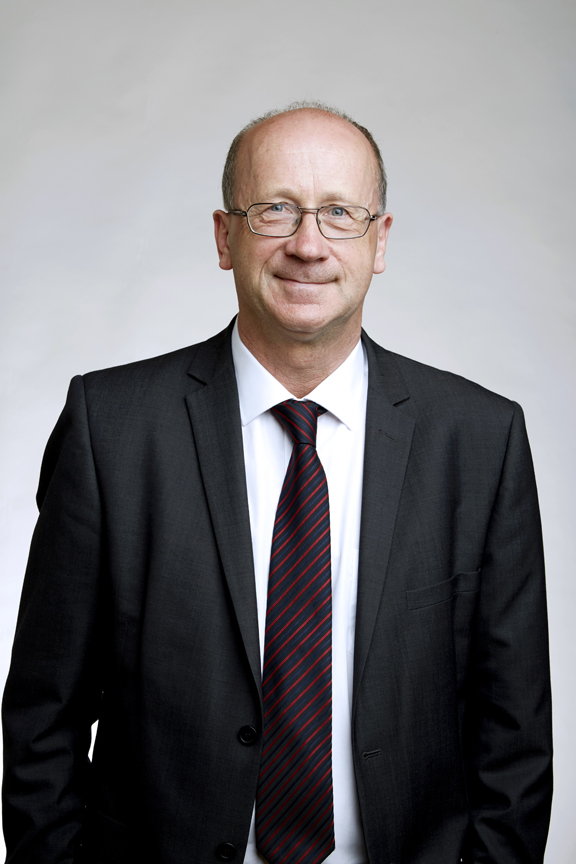 Timothy Peter Softley is Pro-vice-chancellor (PVC) for research and knowledge transfer at the University of Birmingham Attribution: The Royal Society